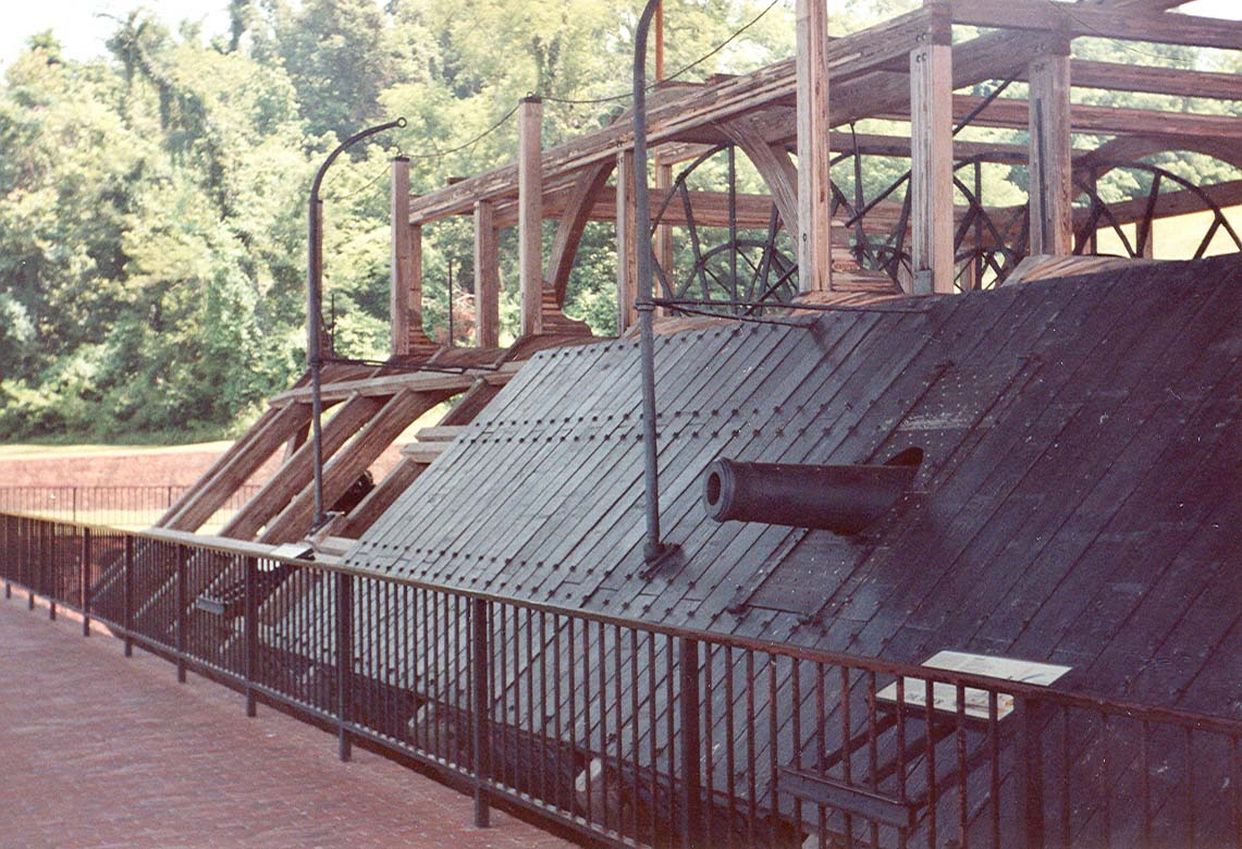 6th Of October Bridge. USS Cairo.